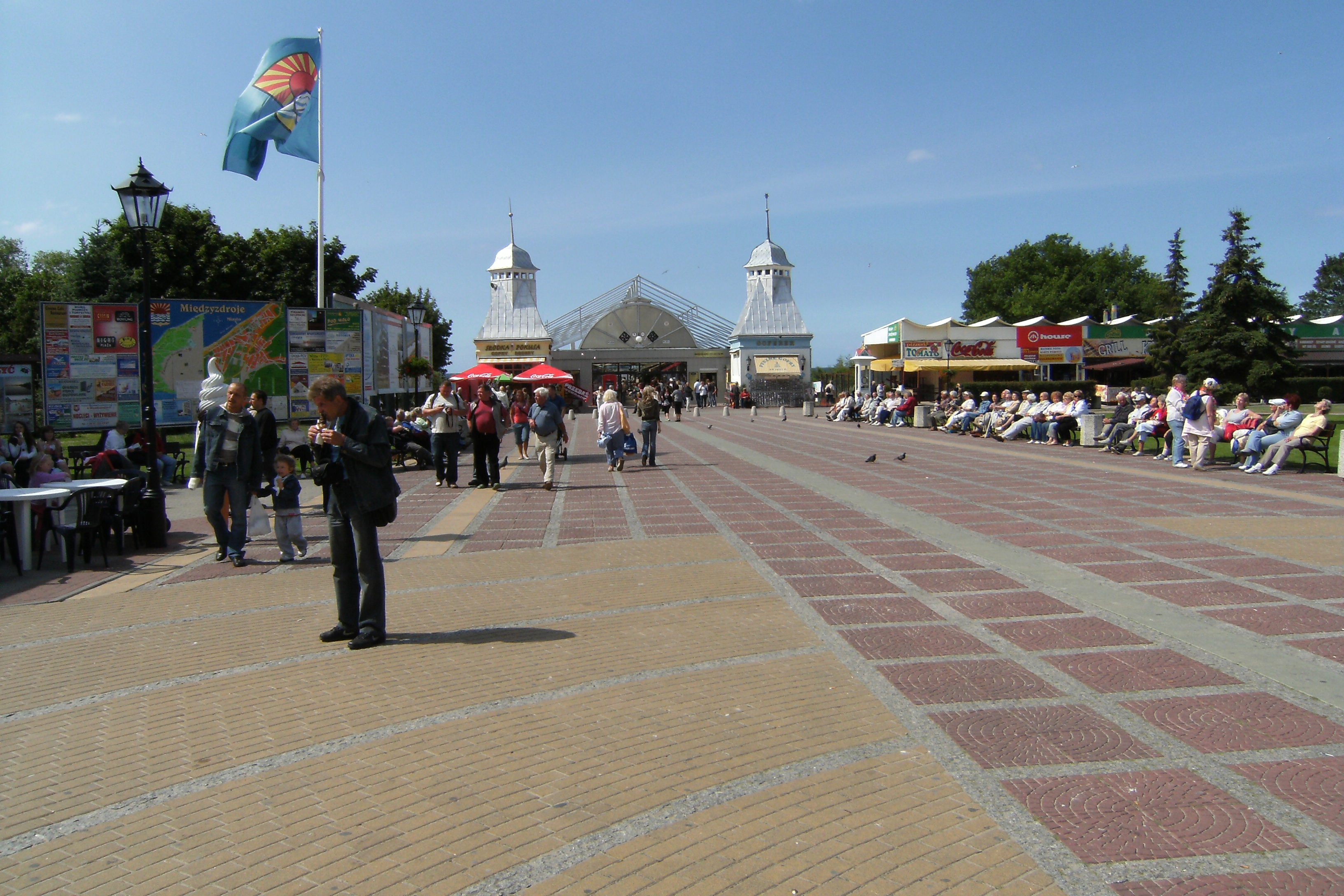 Międzyzdroje, promenade and pier